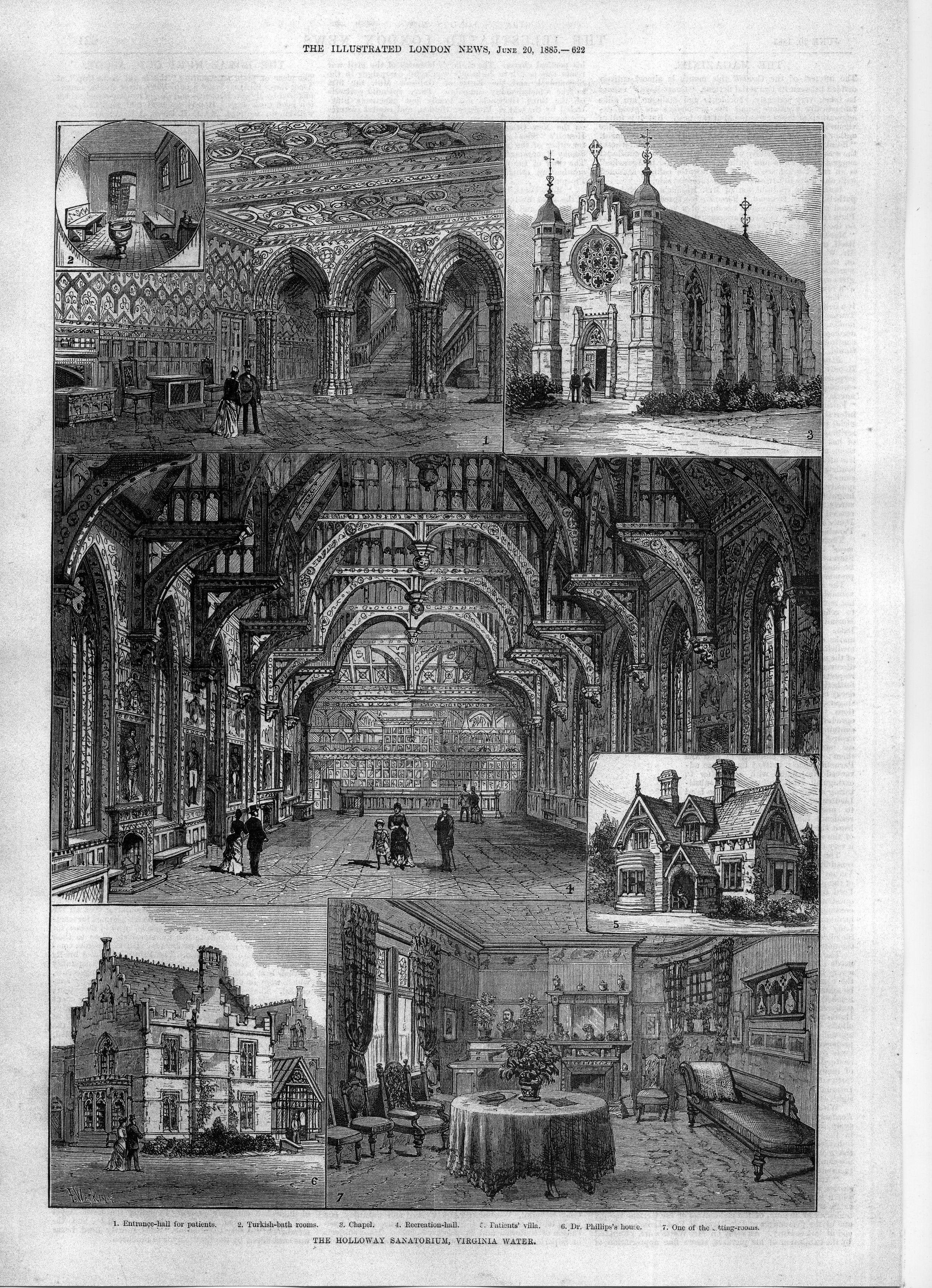 Holloway Sanatorium, Virginia Water, Surrey, UK, in 1885